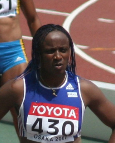 World Athletics Championships 2007 in Osaka - French long jumper and runner Eunice Barber during preparation for her last jump at the qualifying round